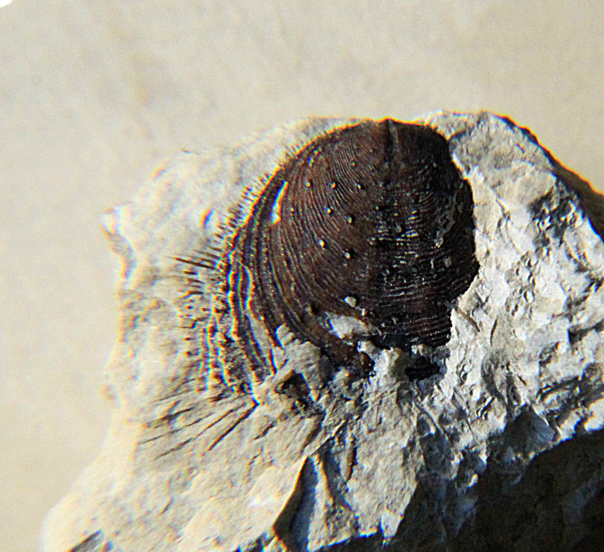 Schizambon perspinosum, a brachiopod, class lingulata, order Siphonotretida, family Siphonotretidae, 8 mm along the axis, not measuring the spines, collected from the Bromide Formation, Oklahoma, USA, from the Upper Ordovician (Sandbian). It is a phosphateous shell, with regular nodes, densely covered in very narrow (0.1mm), but long (3mm) spines. Identification by Donna Russell of Geological Enterprises.